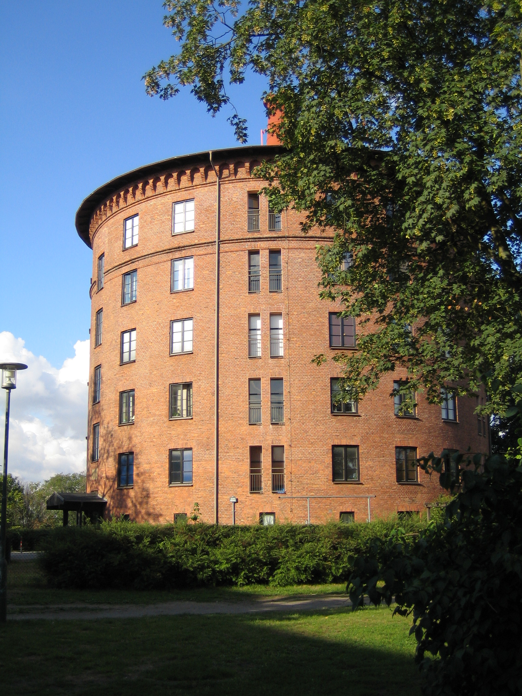 The old water tower, now apartments, at Kirseberg in Malmö, Sweden.